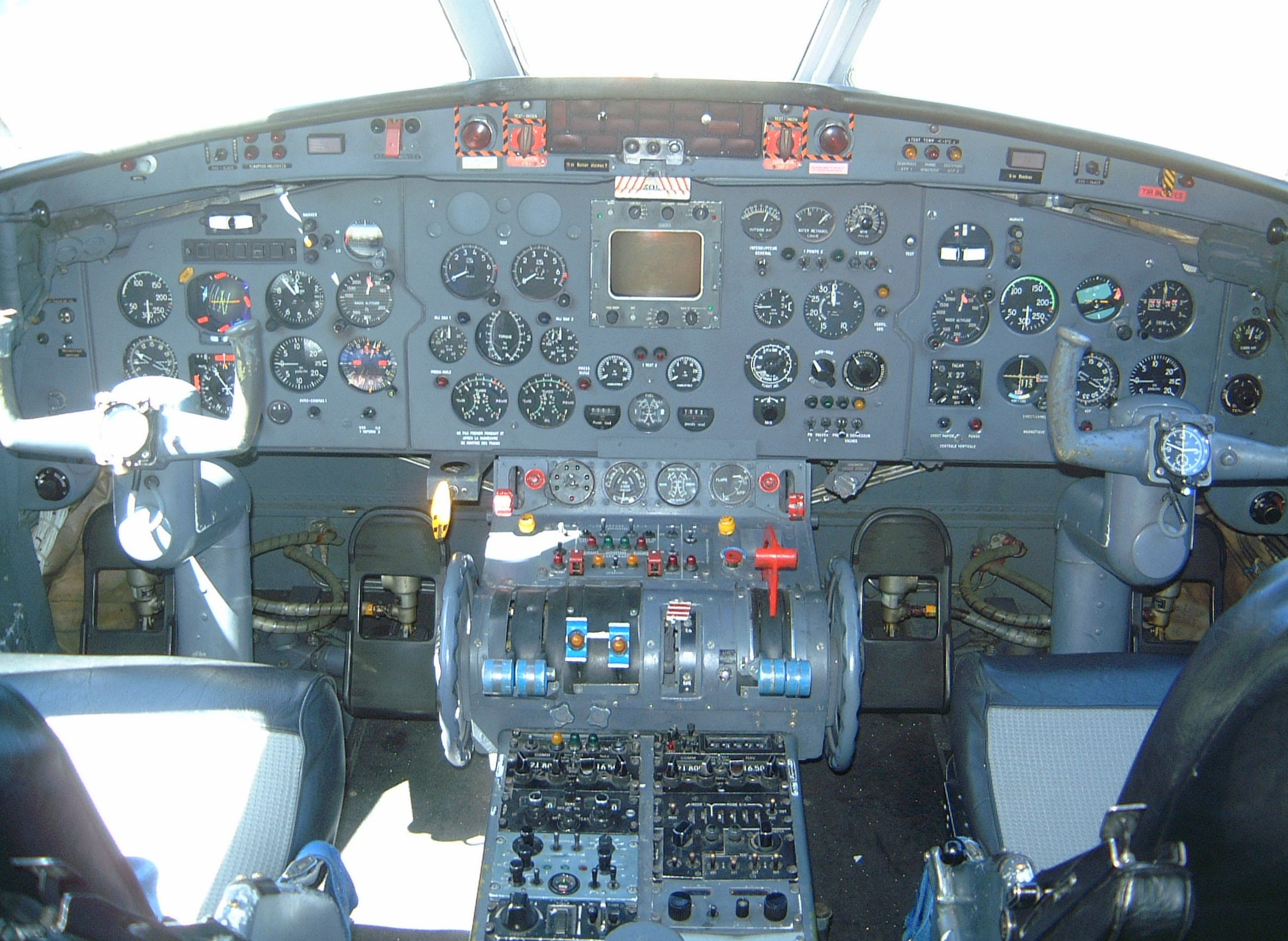 Picture of a N262E's cockpit of the French Navy